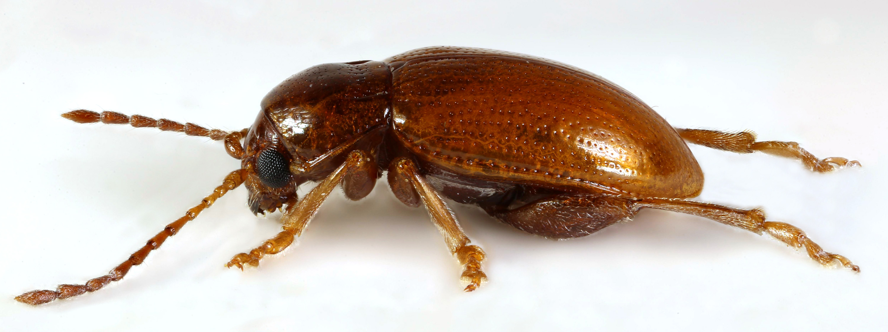 Neocrepidodera ferruginea, Mariandyrys, North Wales, Sept 2016 2